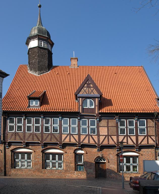 Krempe (Schleswig-Holstein, Germany),town hall , photo 2009